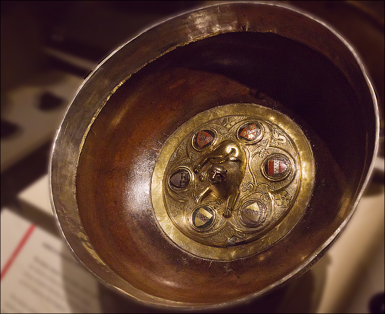 National Museum of Scotland. A mazer was a communal drinking cup used while feasting. They were originally made in Germany (between the 11th and 16th centuries) from maple, which has spotted markings - Maser is the German word for these spots. They take the form of shallow bowls with a foot to rest it on a table, and a decorative boss in the centre of the inside. The foot, the boss (also known as the print) and the metalwork around the rim of the Bute Mazer are all made of silver. This is the oldest surviving Scottish mazer, and is associated with Rothesay Castle on Bute. It is thought to have been used in the 1320's, so is at least that old.